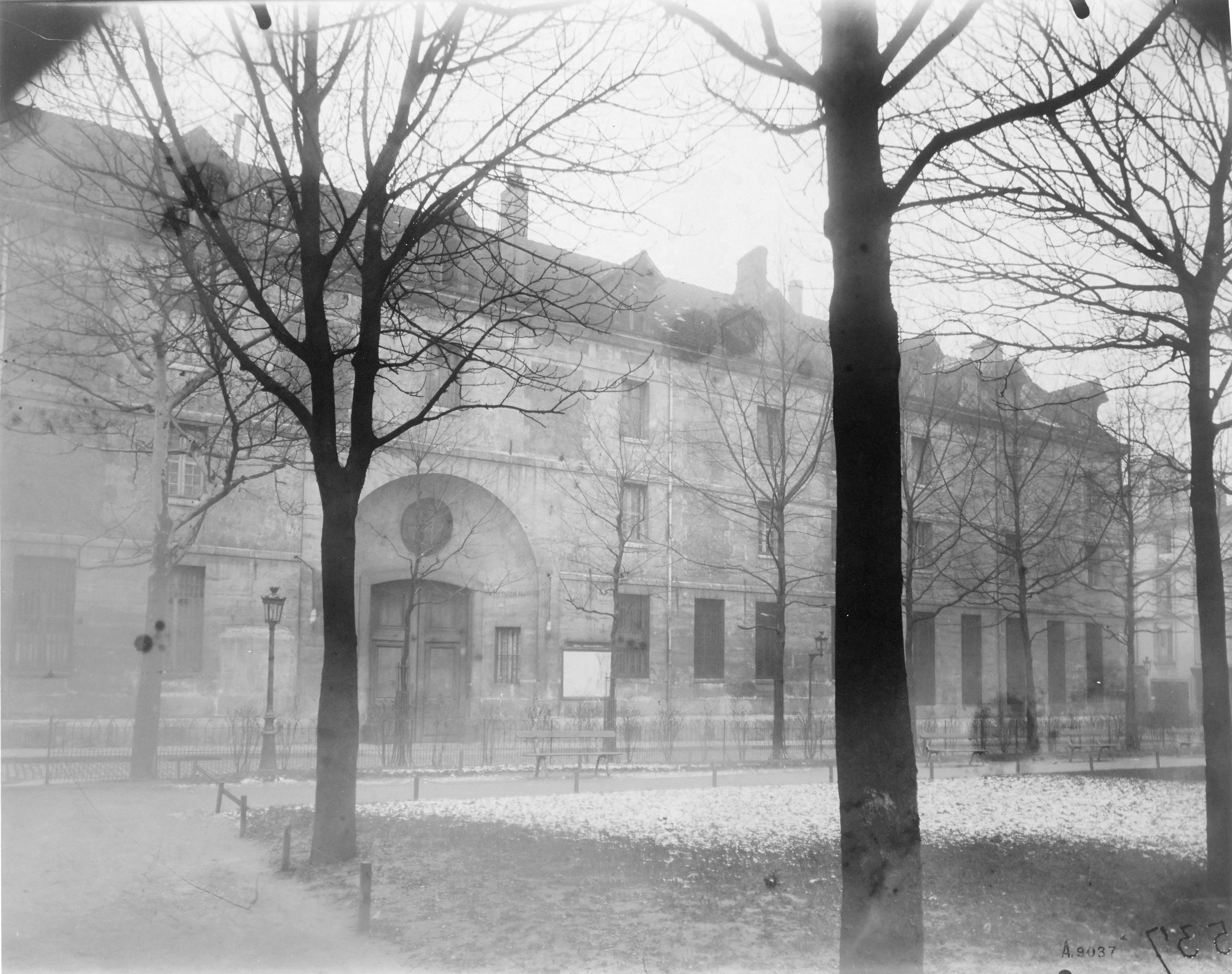 Photo by Atget of the Hôtel Scipion and the square in front in 1924